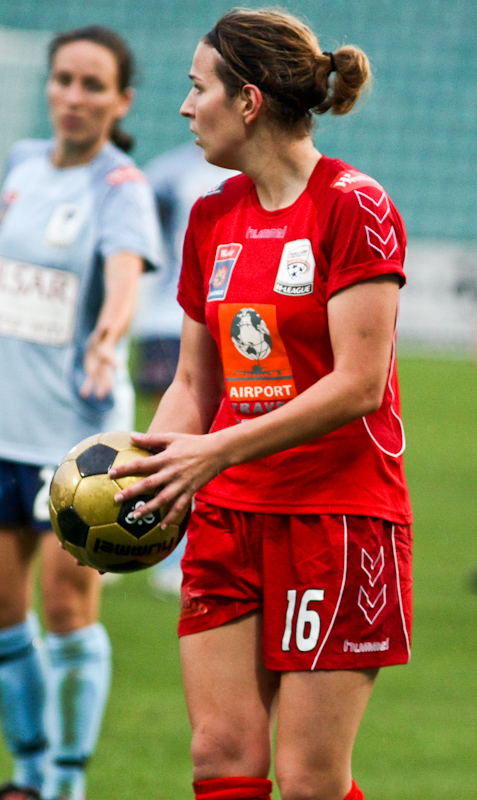 Leanne Slater playing for Adelaide United in the W-League.